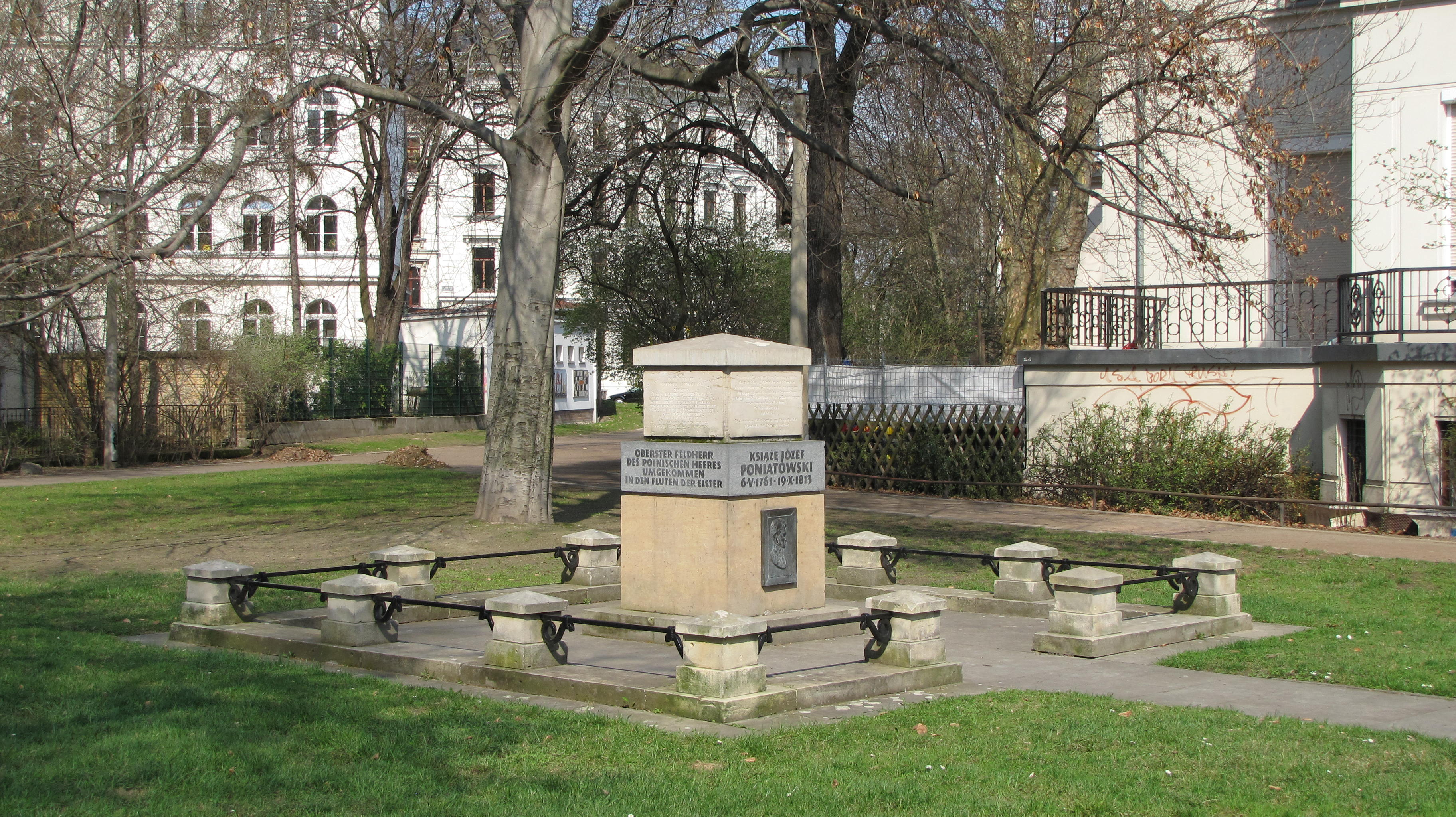 Memorial to Józef Antoni Poniatowski in Leipzig, Poniatowskiplan, Elsterstrasse/Gottschedstrasse